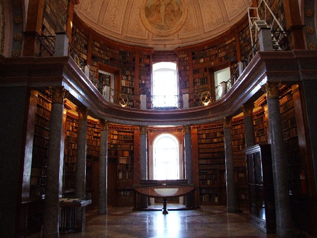 Pannonhalma Archabbey Photographed by Fgg.